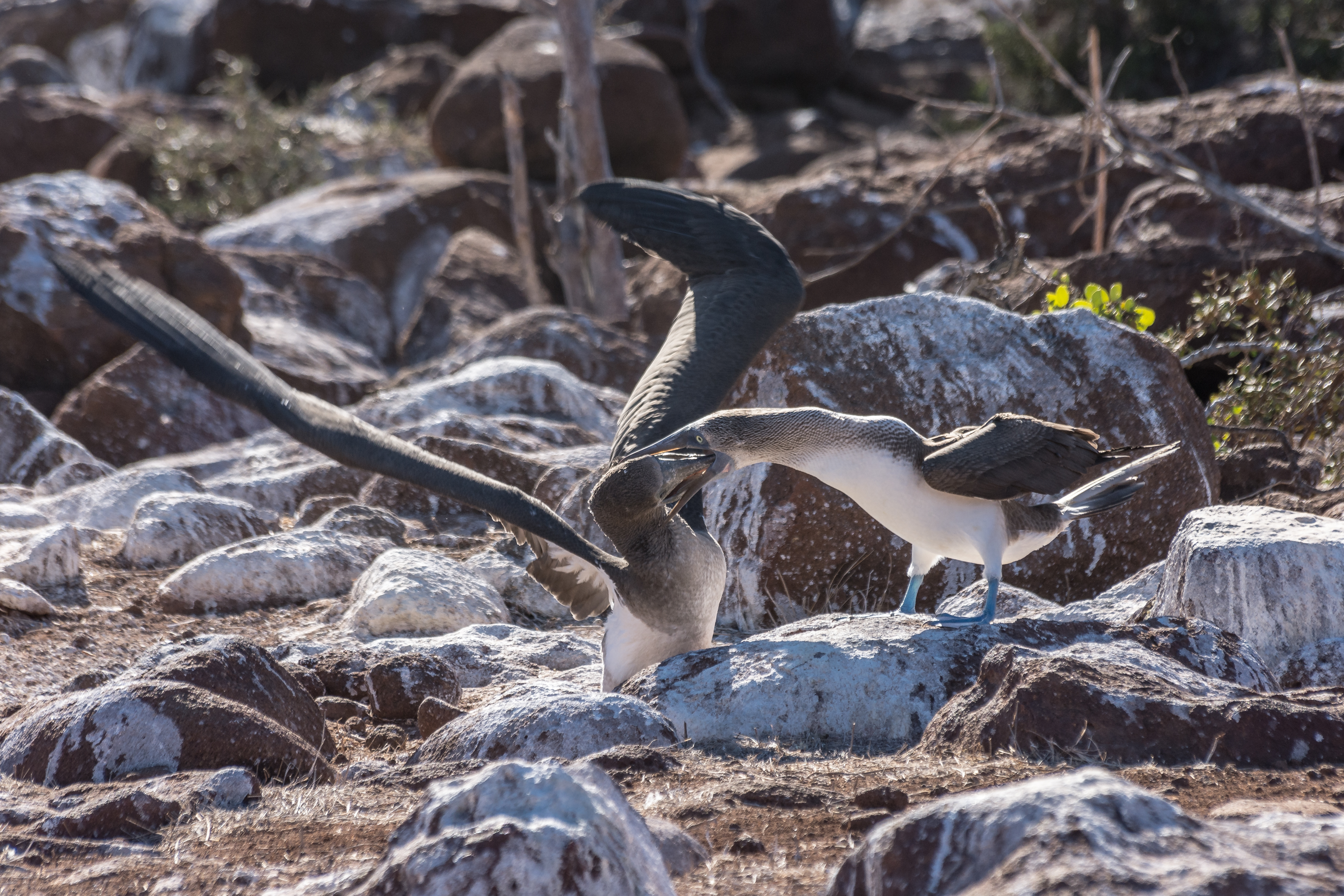 Feeding ceremony of a Blue-footed booby juvenile. In the picture the juvenile is on the left and the adult is on the right.